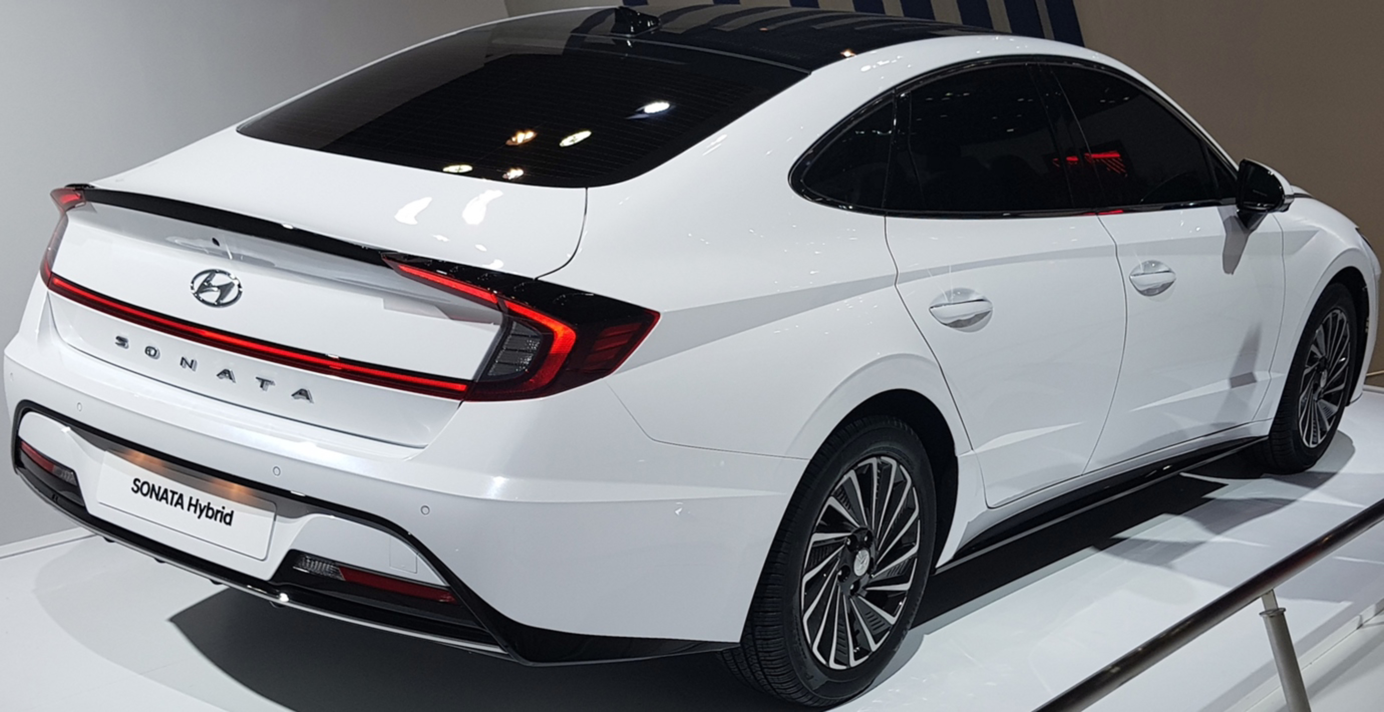 Hyundai Sonata Hybrid